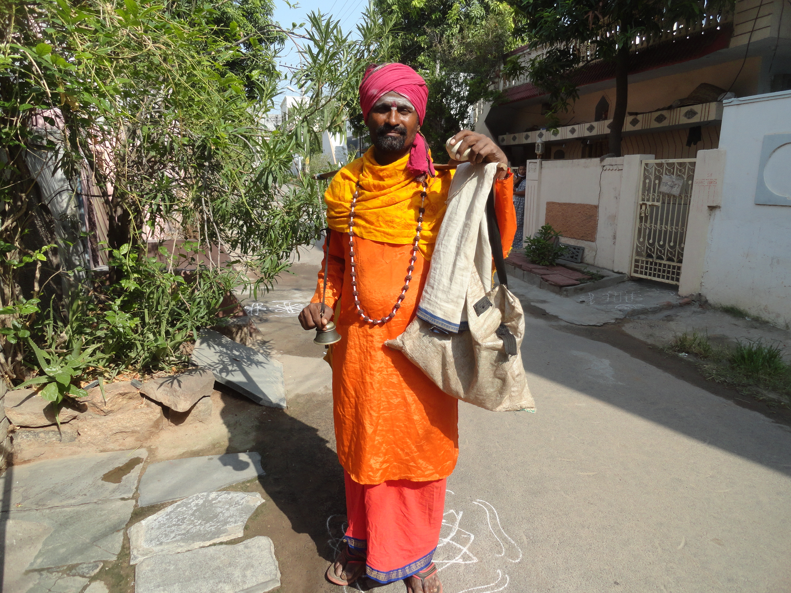 He is called jamgam devara in andhra pradesh. my own work